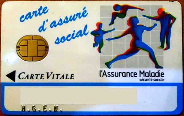 A Carte Vitale from the experimental phase, showing the old logo of the french social security.